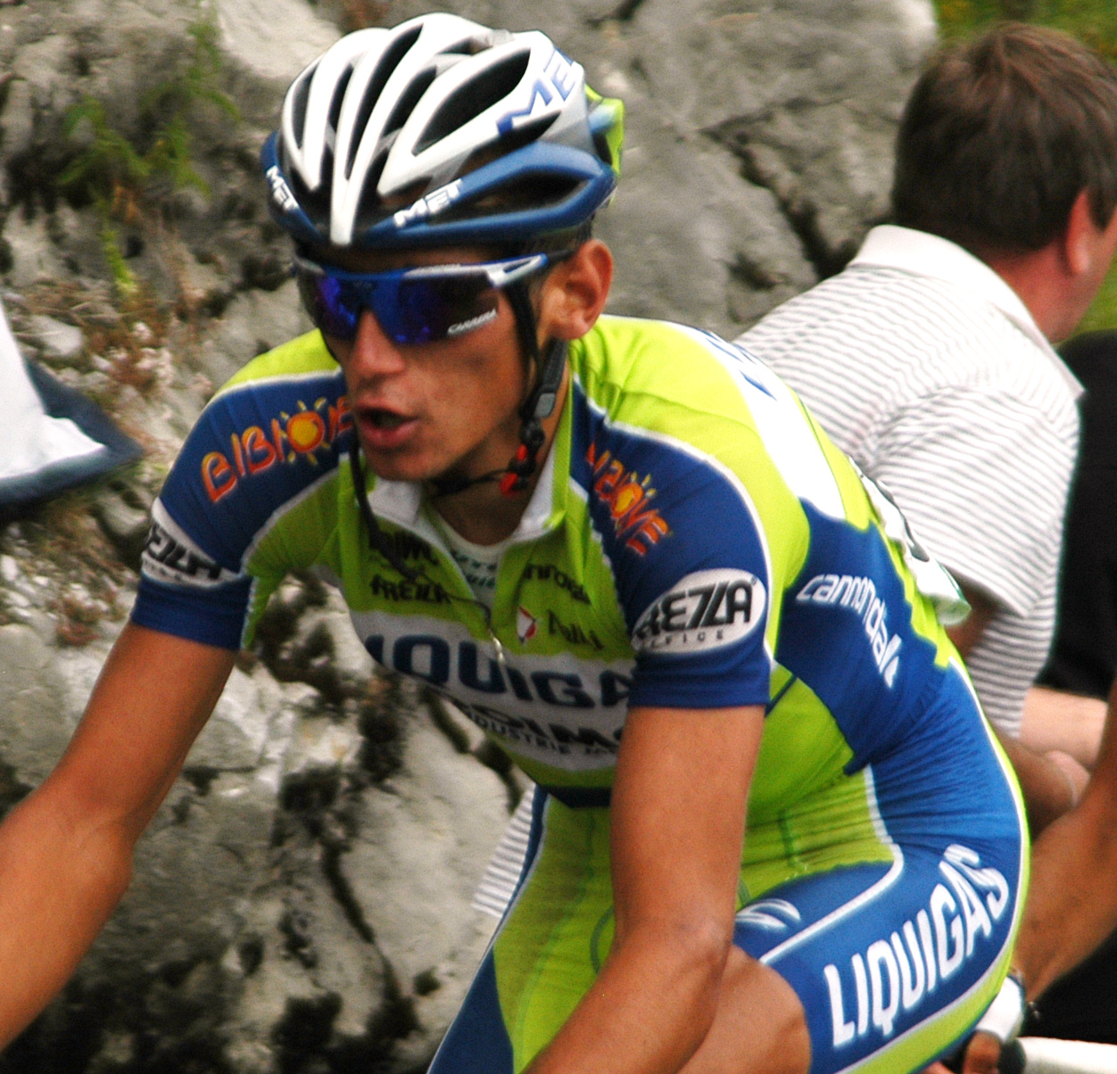 Roman Kreuziger (CZE) at stage 17 of the 2009 Tour de France on the Col de la Colombière.